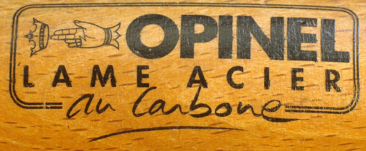 Opinel-Pocket-Knife: Sign on Hilt of an Opinel No. 10